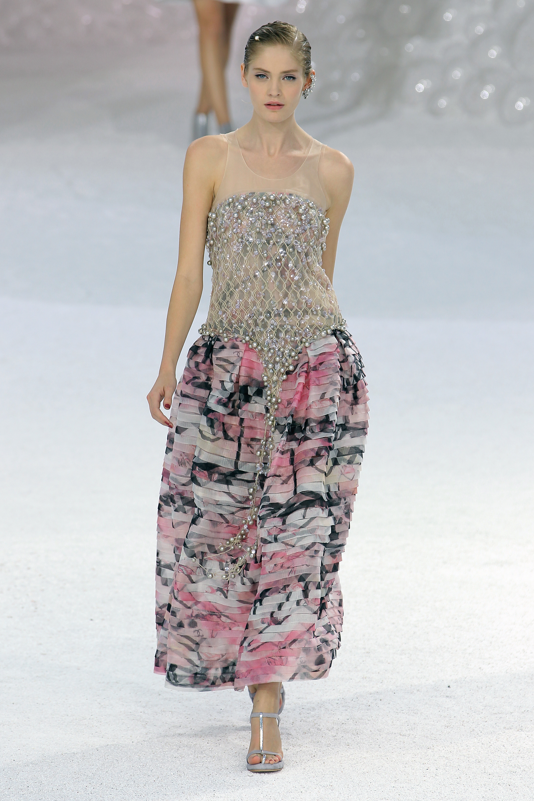 Heidi Mount at Chanel SS2012